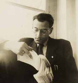 Philipp Fehl I1946: Interrogator at Nuremberg Trials